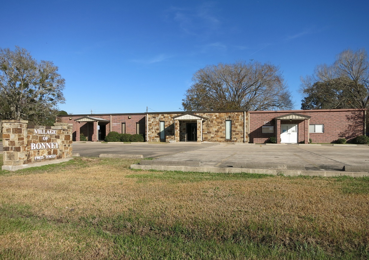 Photo shows the Village of Bonney municipal buildings (Community Center, Police Station, City Hall) at 19025 FM 521, Bonney, Texas. The view is toward the east.